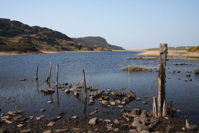 Loch Fada, Colonsay Three lochs on Colonsay, linked by streams, are all called the same. This is the middle loch. Trout-fishing is a popular sport in all three lochs.